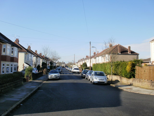 Waun-y-Groes Avenue, Cardiff Looking west along the avenue, which runs parallel with the Birchgrove to Rhiwbina railway line.